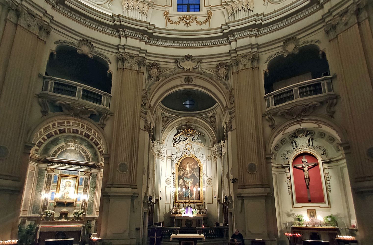 Basilica of Saints Celso & Giuliano (Basilica of Saints Celsus and Julian), Rome